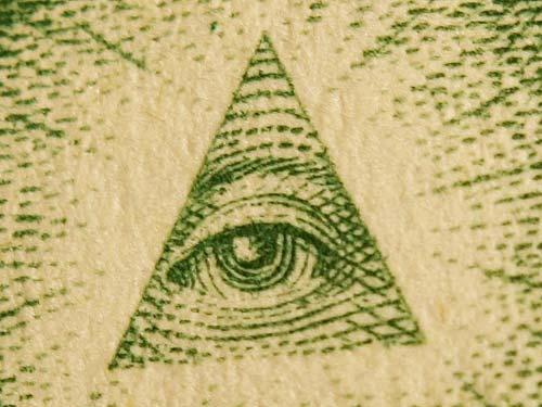 Detail of a US dollar bill